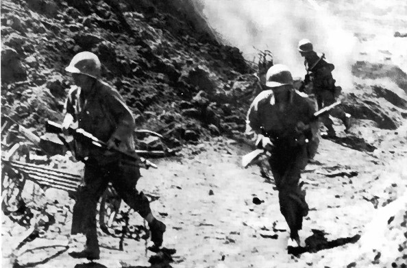 Corkscrew-demolition team runs from cave blast.